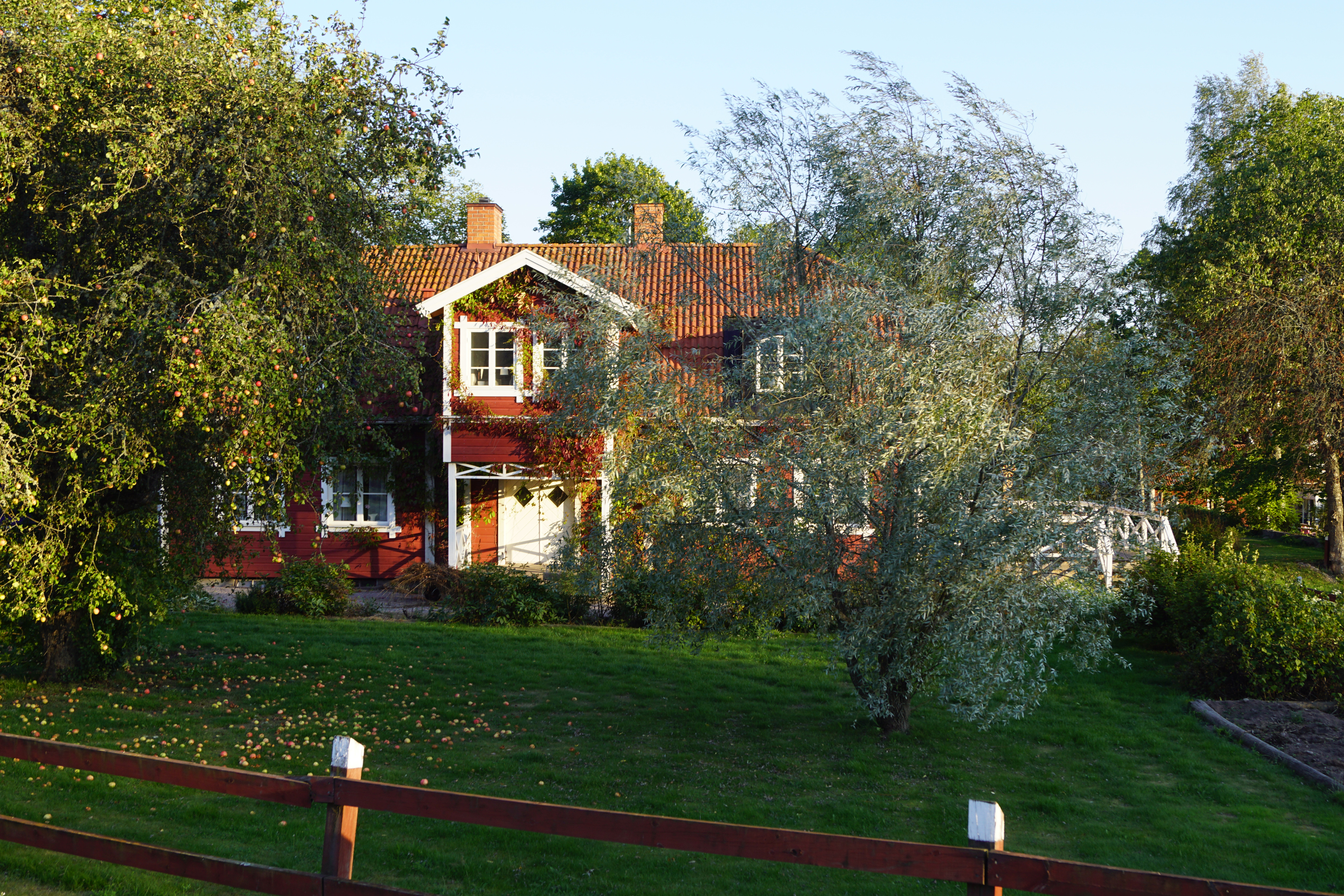 Totebo gård, a farm in Totebo in Västervik Municipality, Sweden.